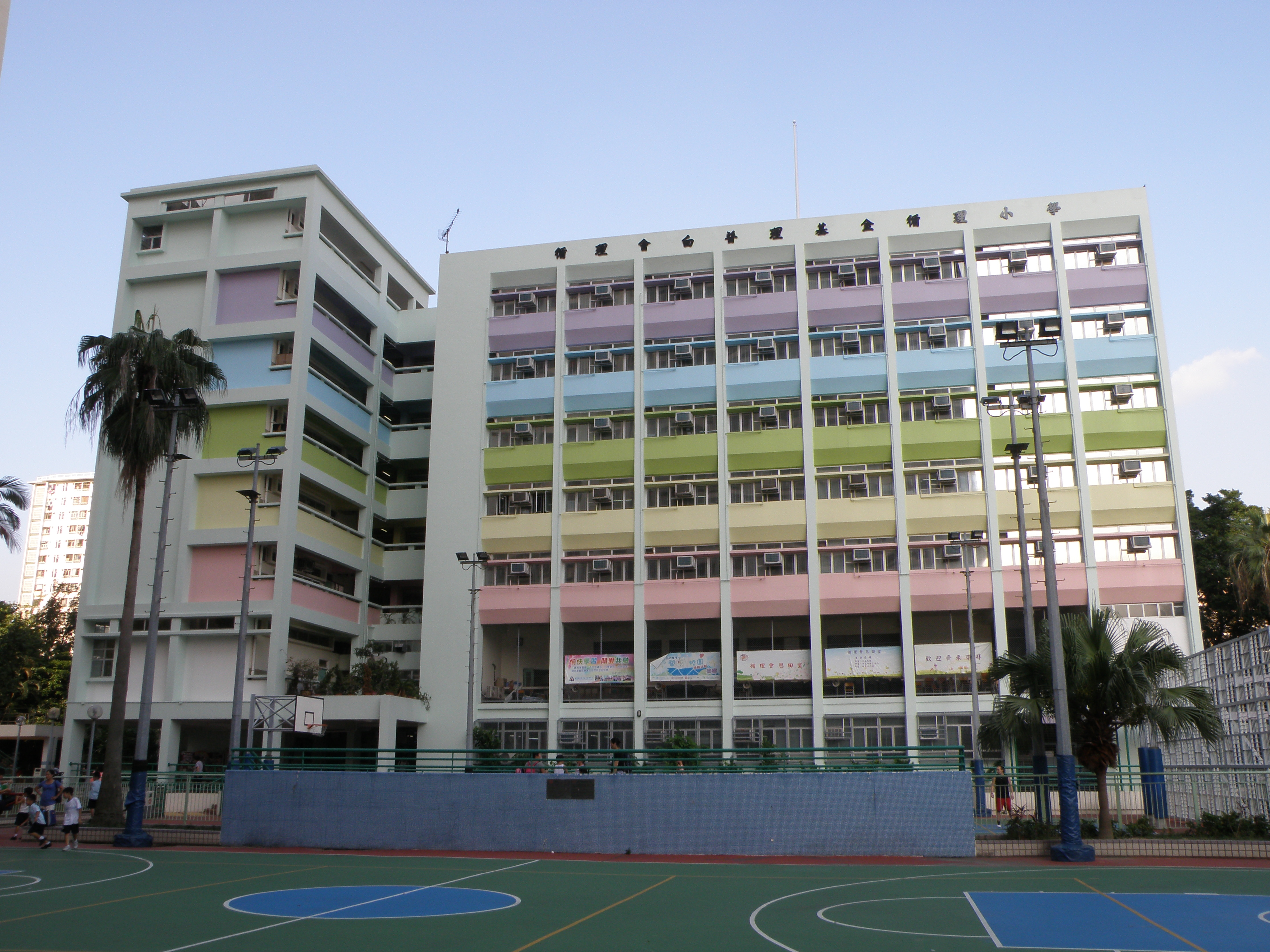 F.M.B. Chun Lei Primary School in Tai Wai, Hong Kong.